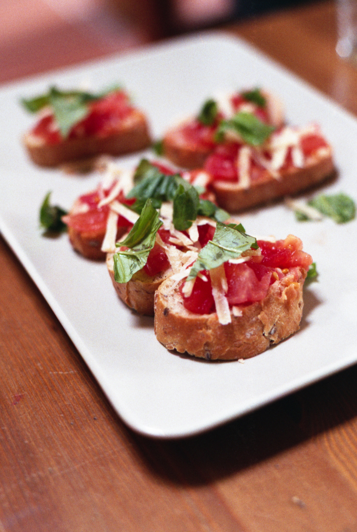 500px provided description: A delicious creation of my friend with passion for Italian Cuisine... [#Film Photography ,#Italian Cuisine ,#Bruschetta]